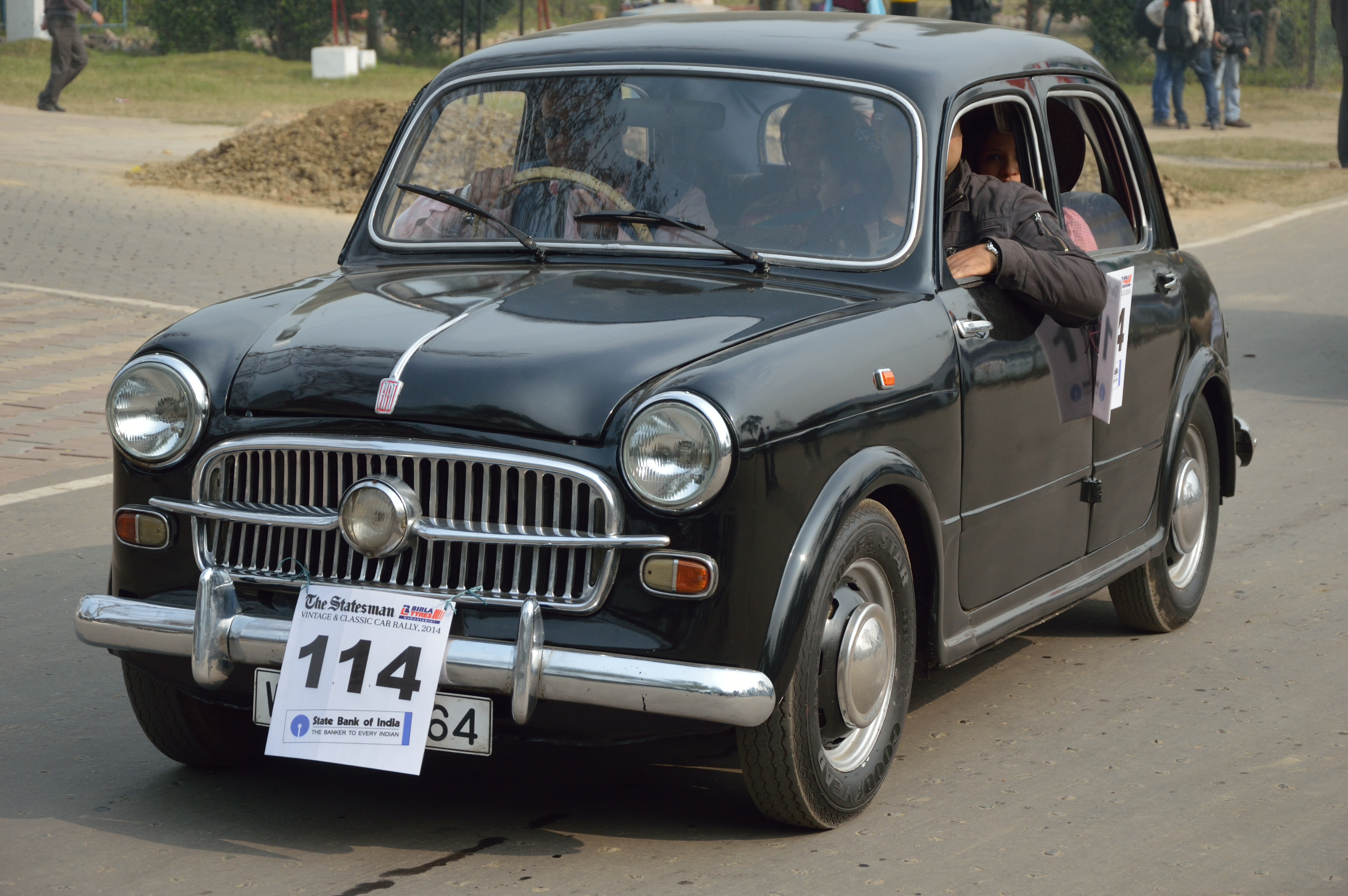 This classic car was exhibited and took part during ‘The Statesman Vintage & Classic Car Rally 2014’at the Eastern Command Sports Stadium of Fort William, Kolkata. The route was Strand road, Esplanade, Central avenue, Bhupen Bose avenue, Shaymbazaar five points crossing, APC Roy road, Moulali, CIT road, National Medical College, Park Circus seven points, Syed Amir Ali Avenue, Gariahat, Rashbehari Avenue, SP Mukherjee road, Hazra crossing, Ashutosh Mukherjee road, Exide crossing, AJC Bose road again Strand road and back to the ECS stadium. The rally was held at the morning on Sunday, 19 January 2013 at the ECS Stadium, where 175 entrants were registered with cars and bikes manufactured from 1906 to 1971. This one day festival usually takes place on the second Sunday of every January (but this time it is observed on third Sunday) in Kolkata since 1968 with full of period costume and cultural period pieces. This classic car is owned and driven by Sheikh Sikander Ali.